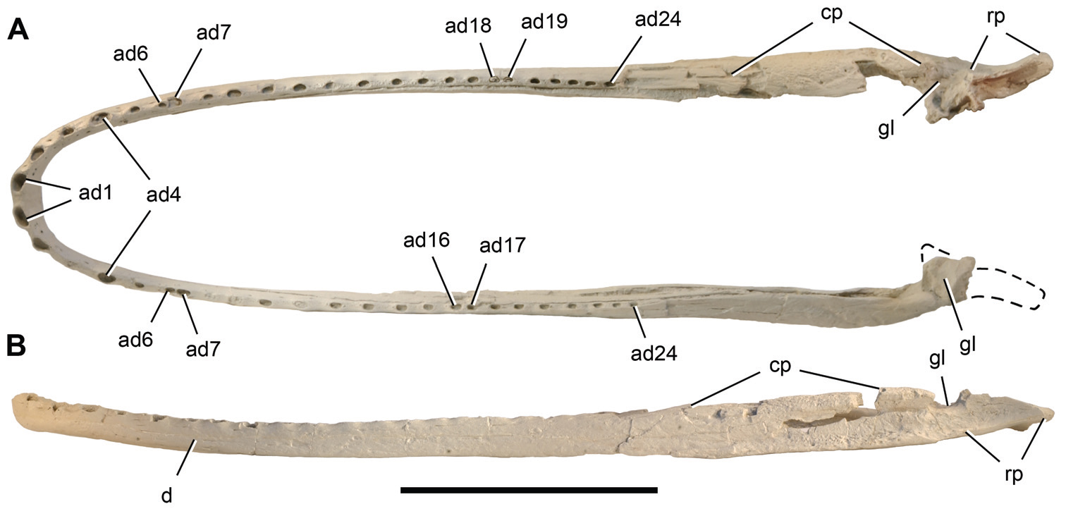 Cast (UCRC PVC9) of the lower jaws of the crocodyliform Laganosuchus thaumastos (MNN IGU13). Scale bar equals 20 cm.